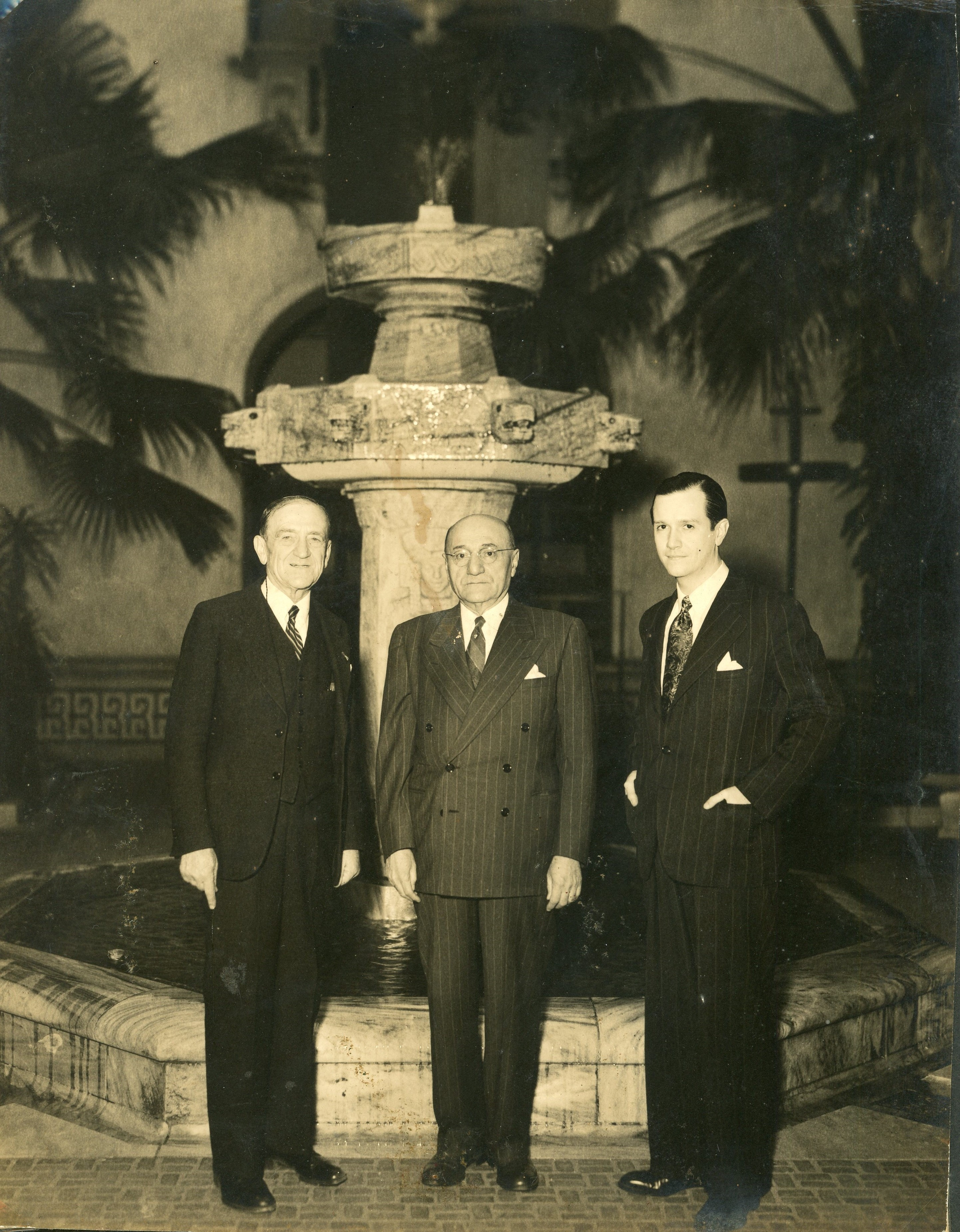 El jurista Tomás Liscano y su hijo adoptivo, Rafael Caldera, junto al director general de la Unión Panamericana, Leo S. Rowe, en Washington D.C.